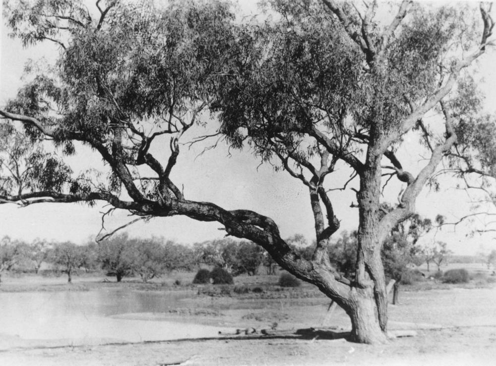 Fort Wills, important landmark on the Burke and Wills expedition Photograph of Burke & Wills depot in the parish of Nappamerry, south-west Queensland.